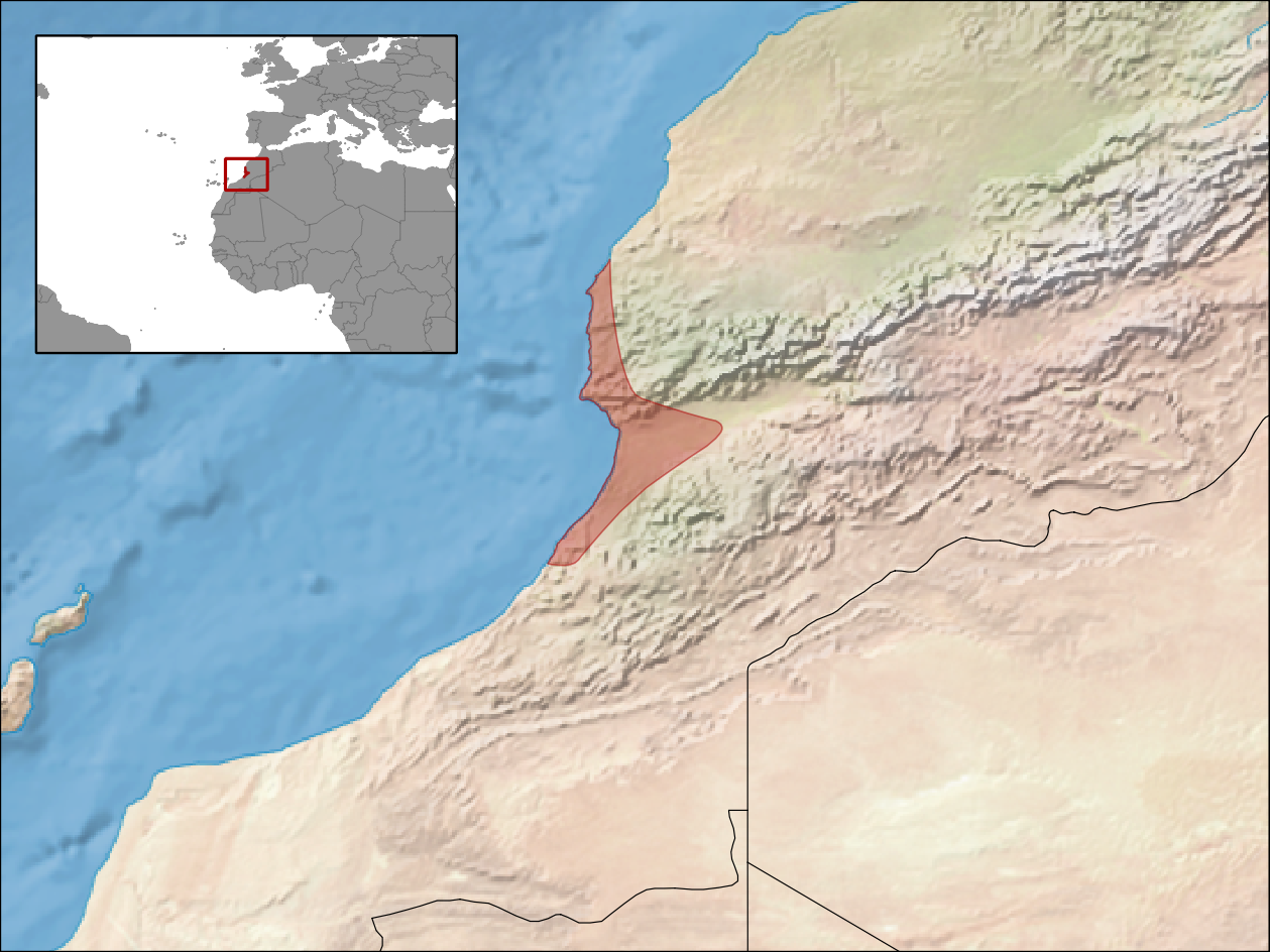 geograhic distribution of Chalcides manueli